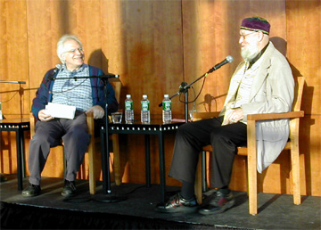 American commposer Terry Riley Interview at Lincoln Center, 2004